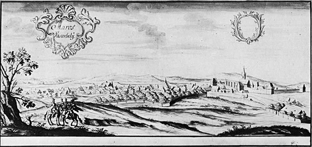 Târgu Mureş in 1735.